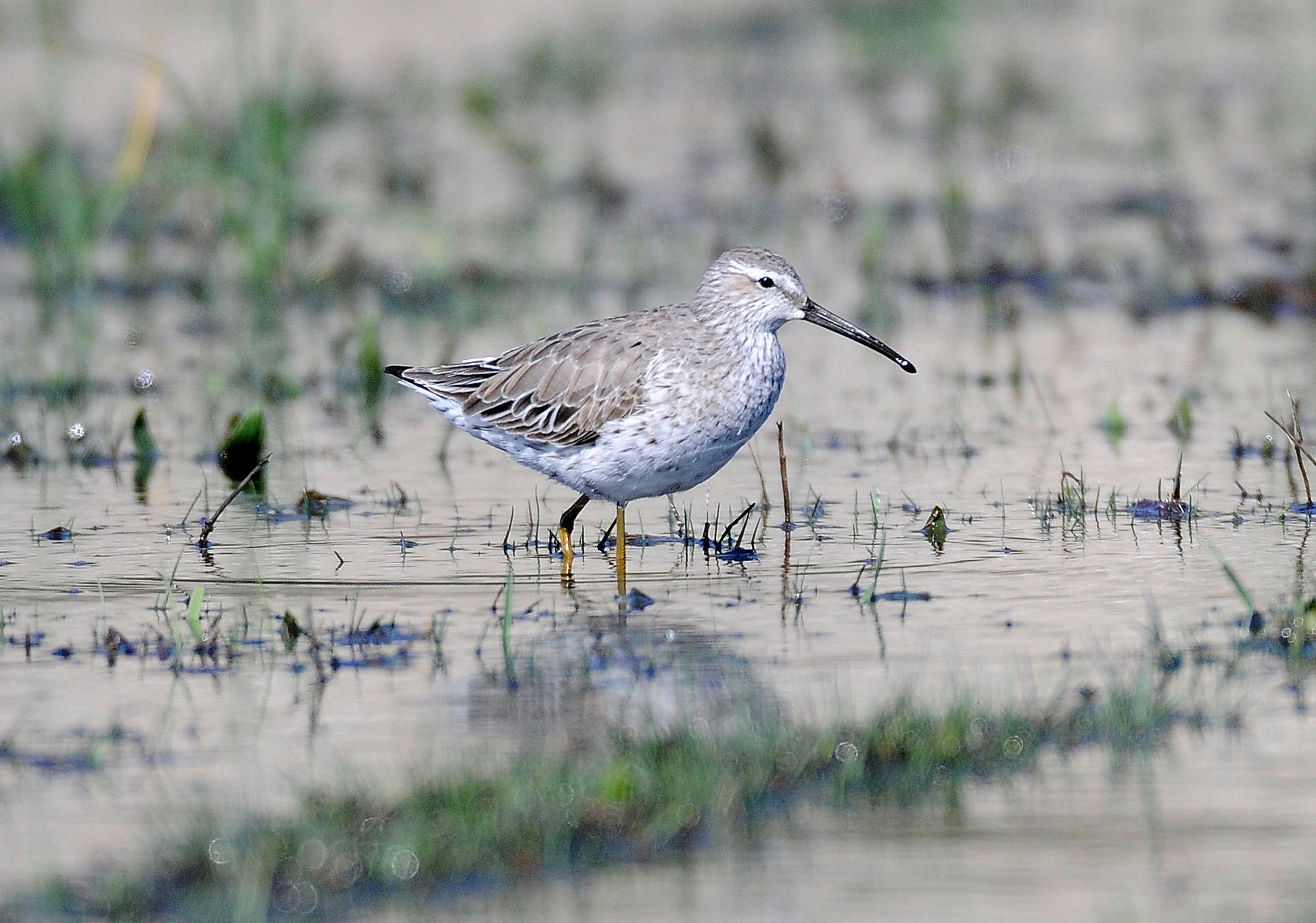 Stilt Sandpiper, Sandy Hook New Jersey. Winter Plumage